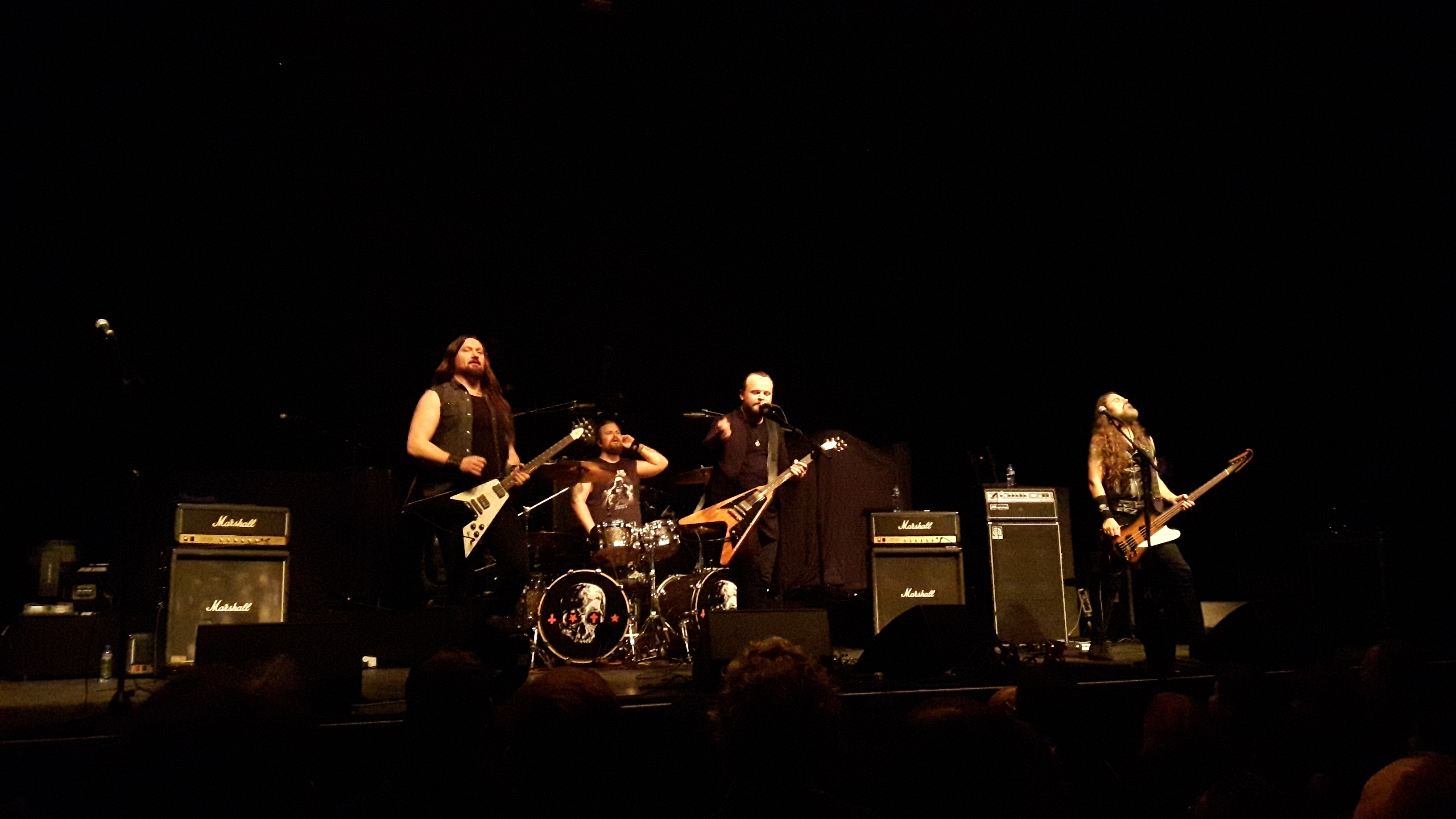 Sahg playing in 013 Tilburg, 18 November 2016